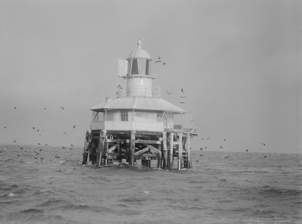 Close up of West Channel Pile Light. Photo by Allan C. Green 1878-1954 ; Date(s): [ca. 1900-ca. 1954]